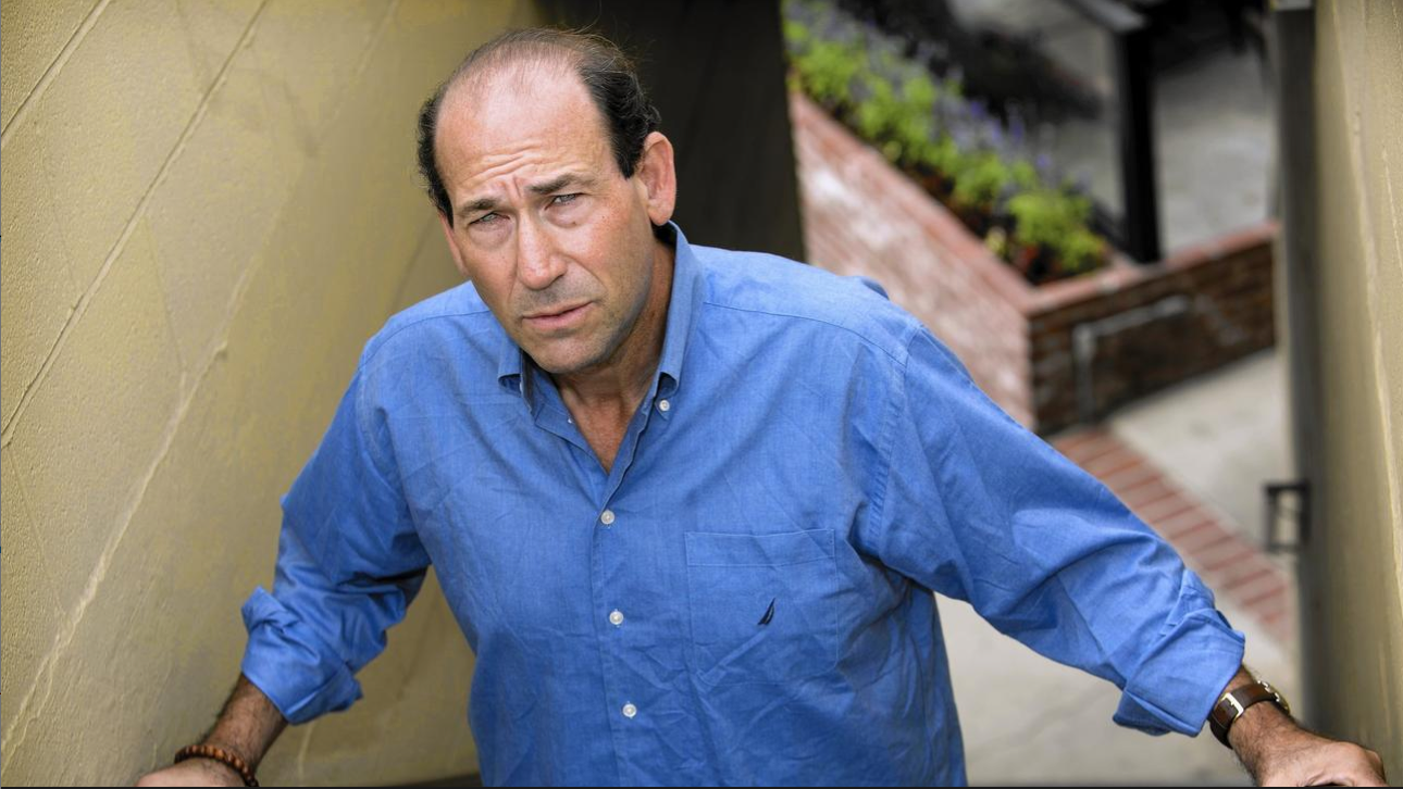 Photo of feature film director Daniel Adams, September 2014